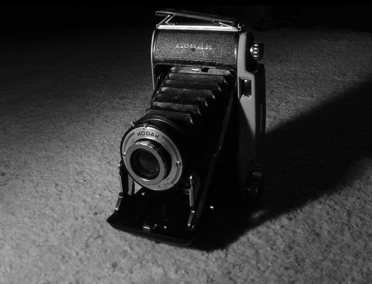 Kodak B11 camera